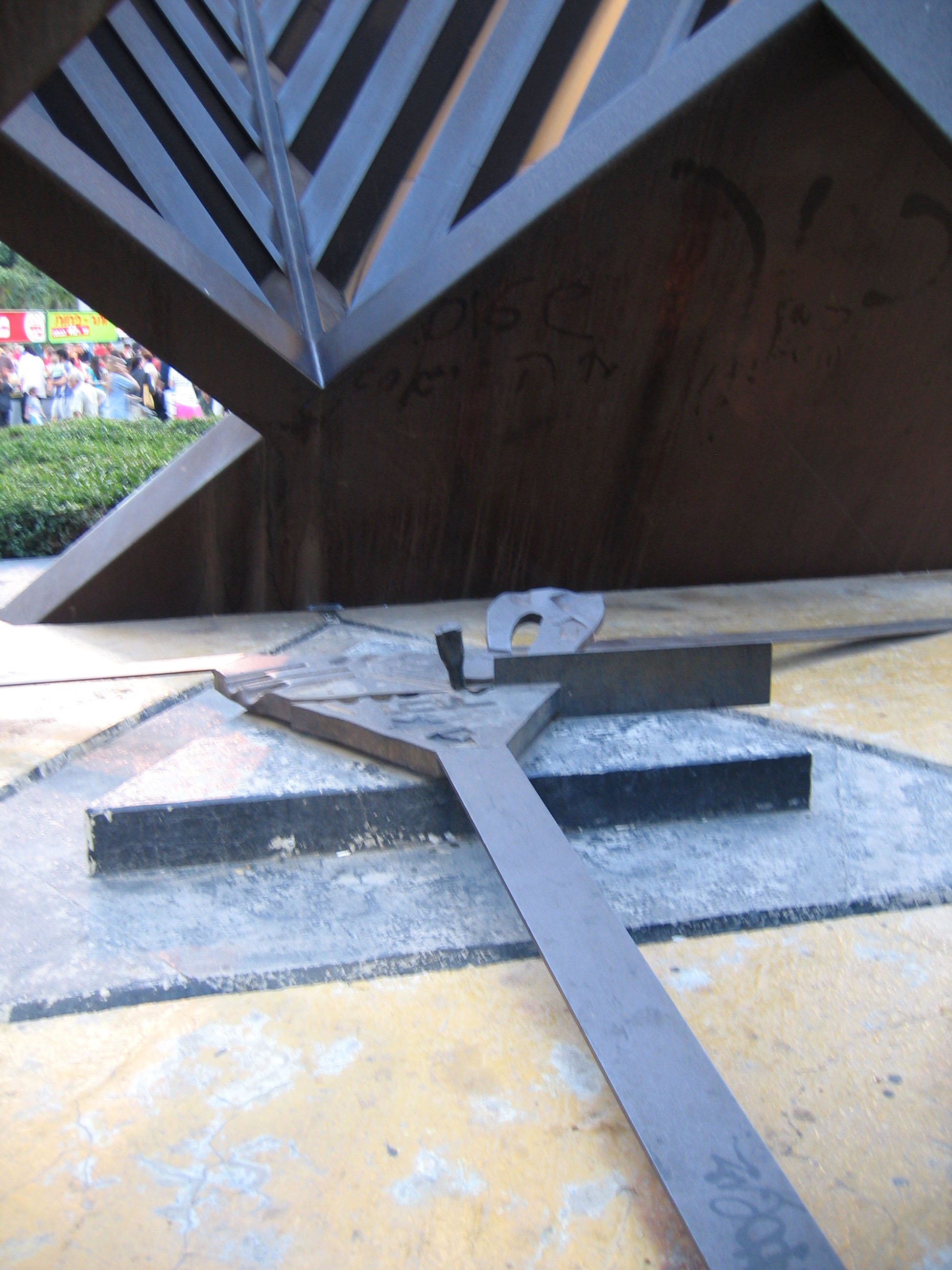 Monument "Lashoa velagvora" ("to the Holocaust and to the Bravery") (1974) by Yigal Tumarkin in Rabin Square, Tel Aviv-Yaffo.